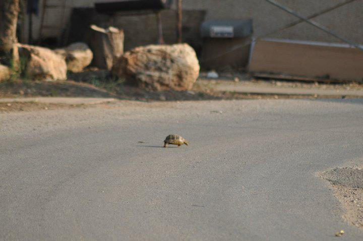 Turtle cross the road